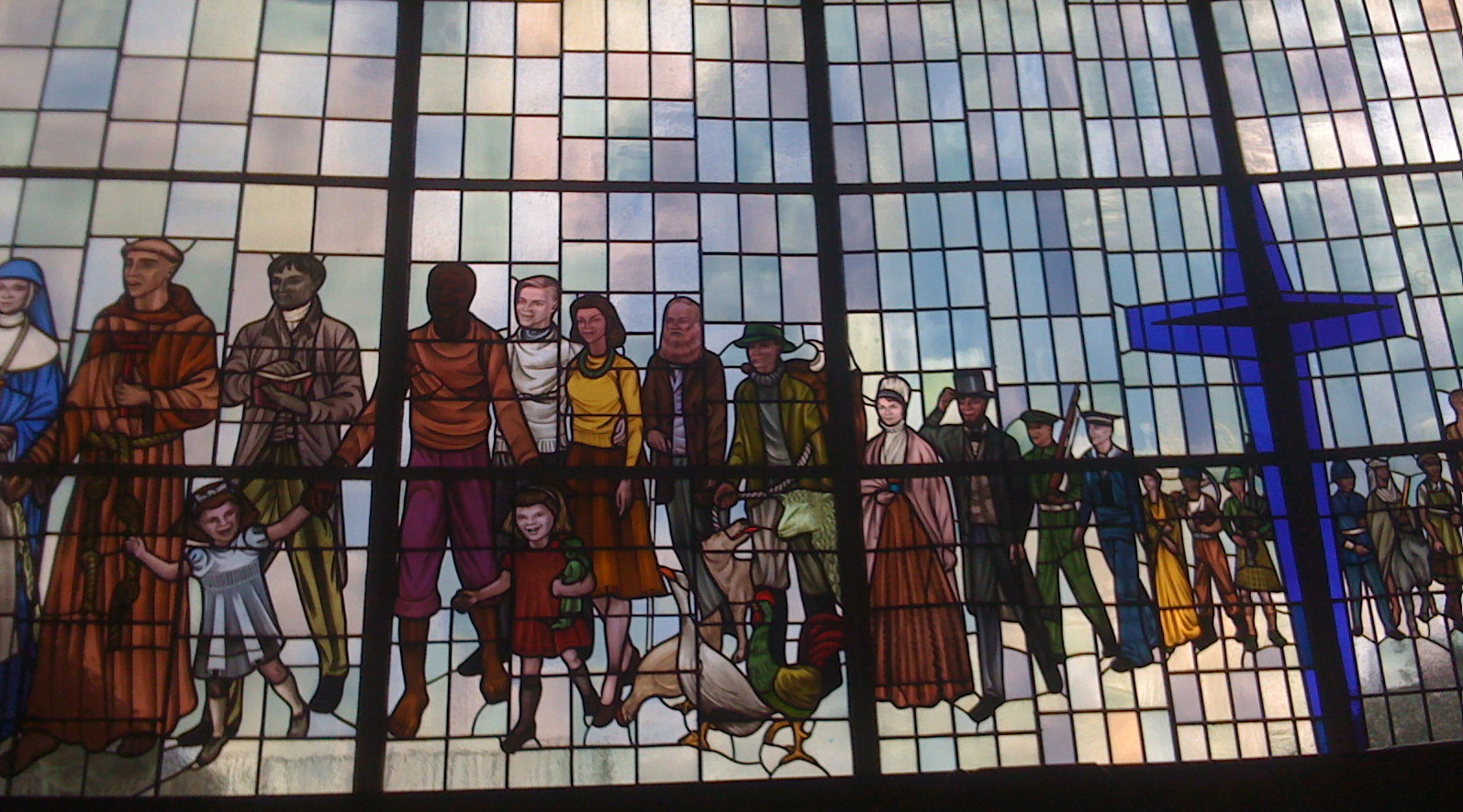 Stained glass window from interior of Christ Church, Lambeth